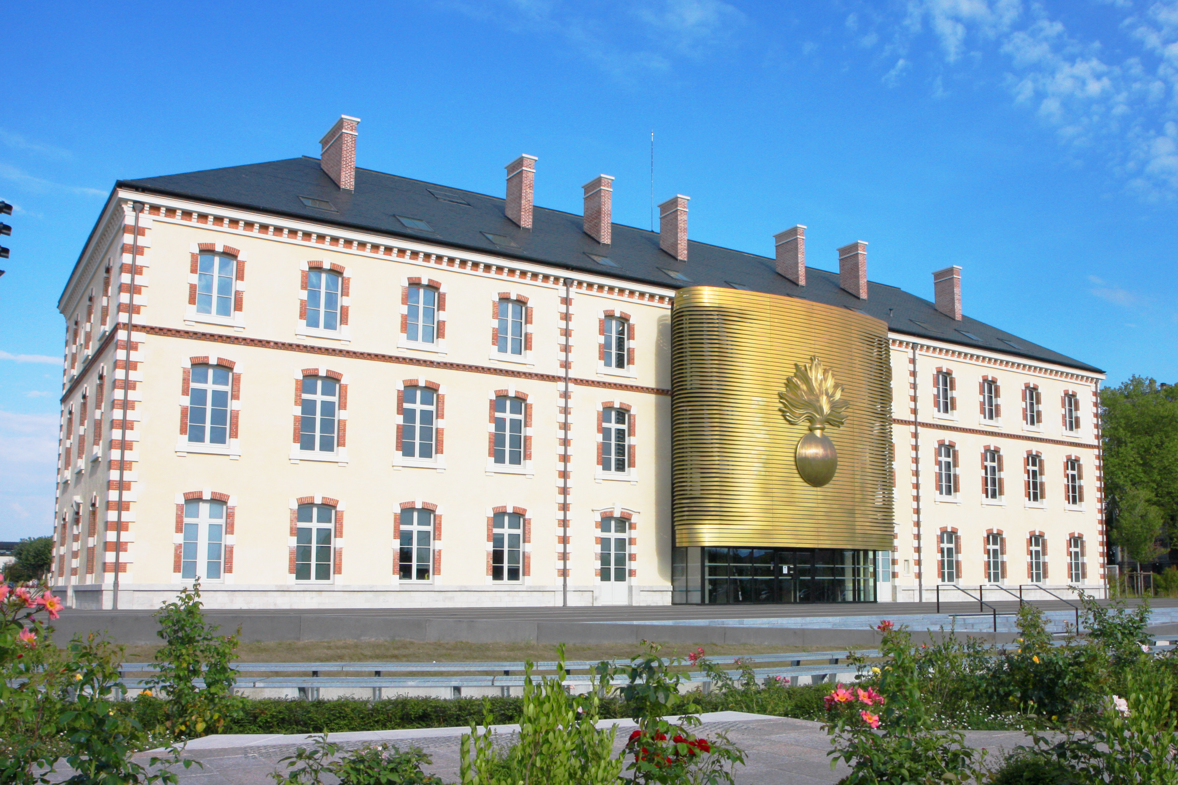 French Gendarmerie nationale museum in Melun, France